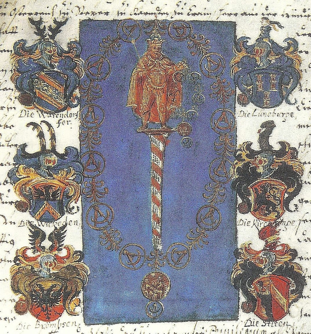 Imperial charter/ privilege for the Zirkelgesellschaft of Lübeck, with coats of arms of its six member families: Warendorp, Wickede, Brömbsen, Lüneburg, Kerkring/Kirchring, Stiten. 1641 October 9 (AHL, Urkunden Abt. Caesarea 250)